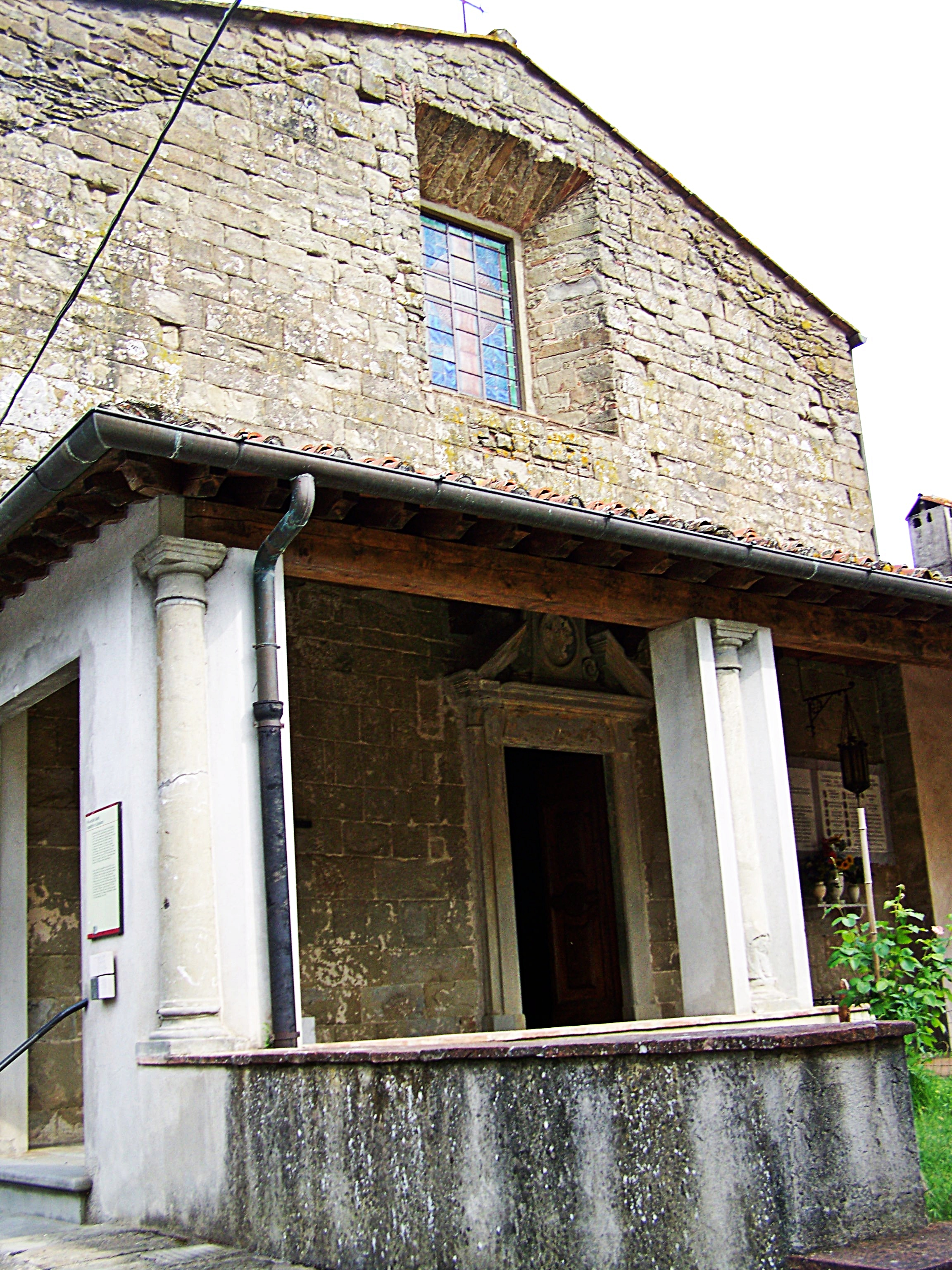 closter